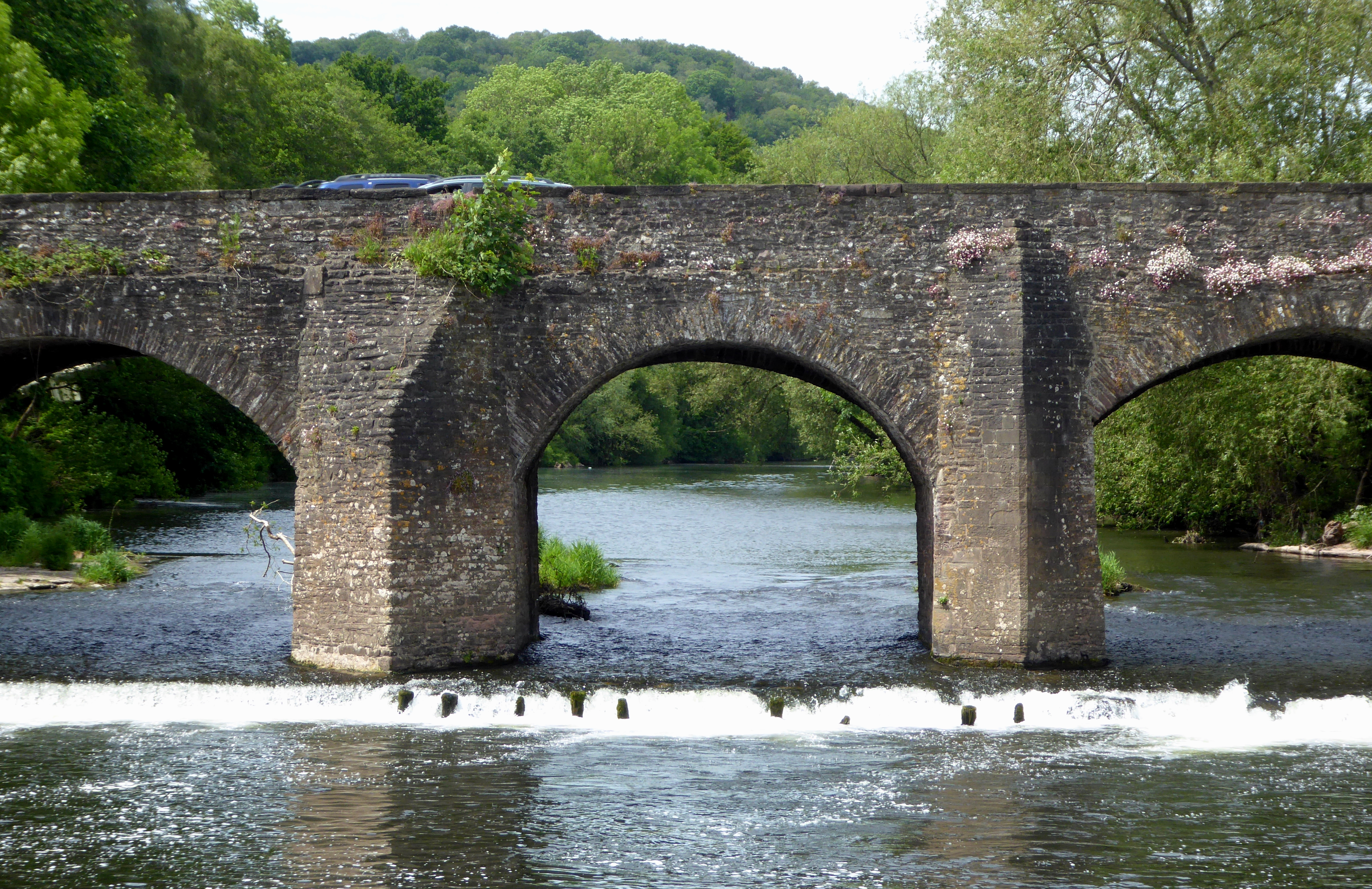 Archway of the Abergavenny Bridge, as seen from the eastern side.